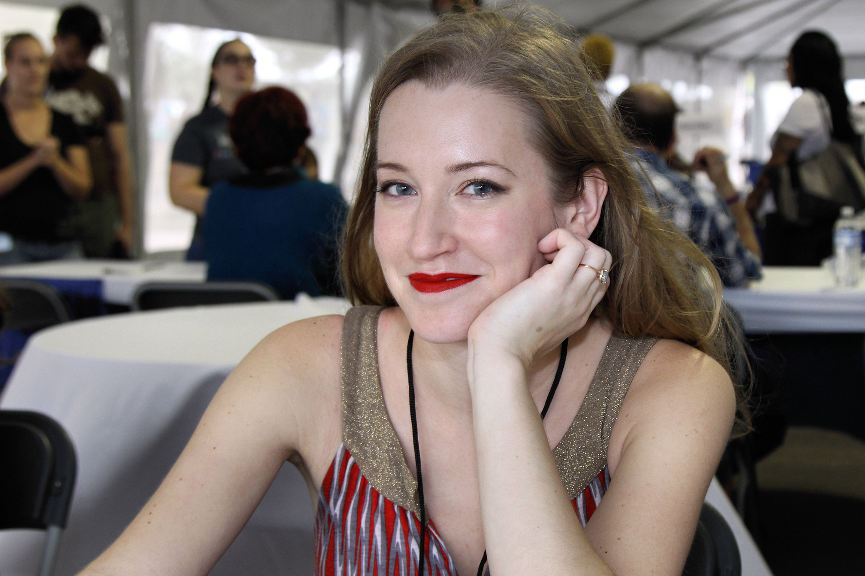 Author Kristen Radtke at the 2017 Texas Book Festival.